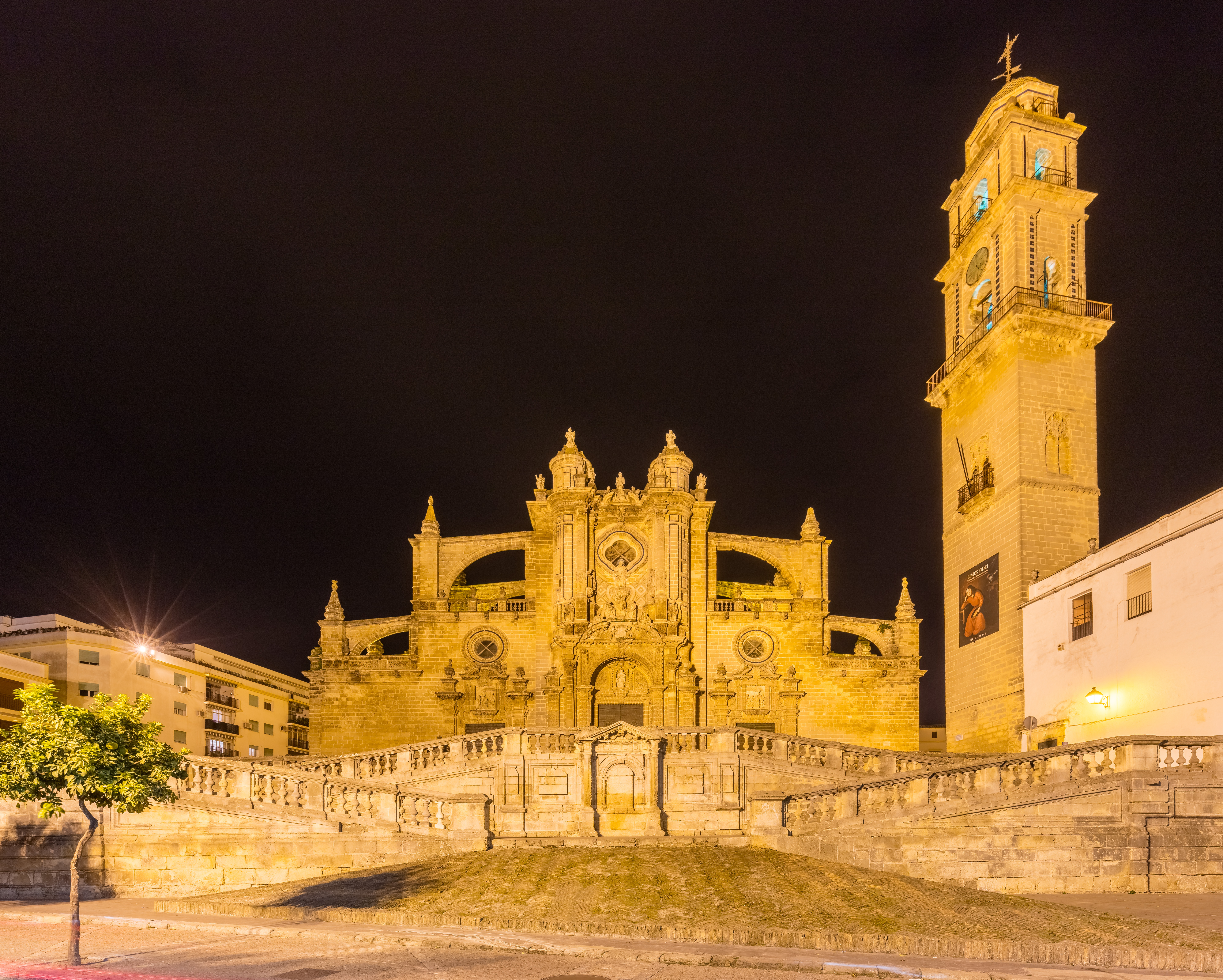 Cathedral of Jerez de la Frontera, Spain